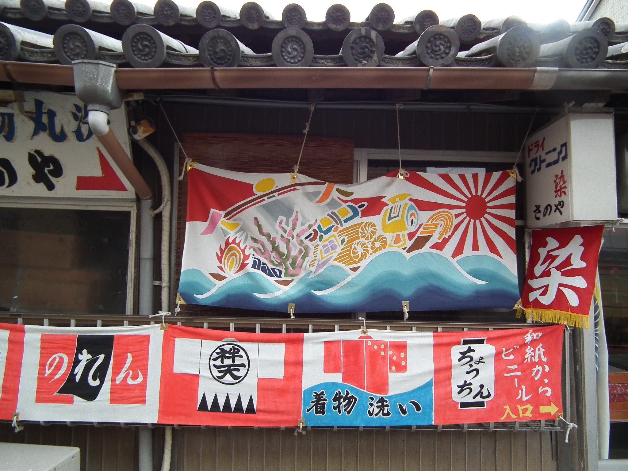 Hataya-Sumoto,Hyogo